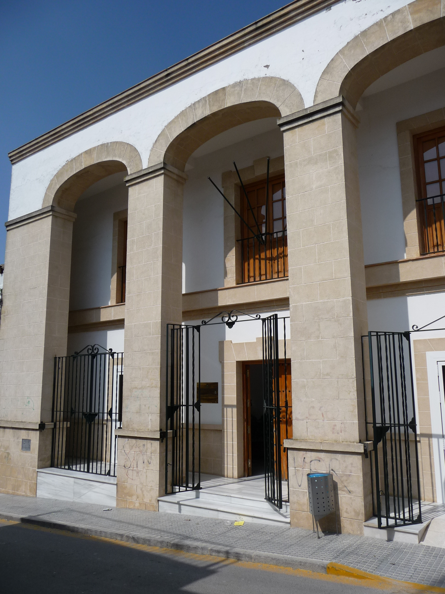 Worker's Union in Trebujena (Andalusia, Spain)